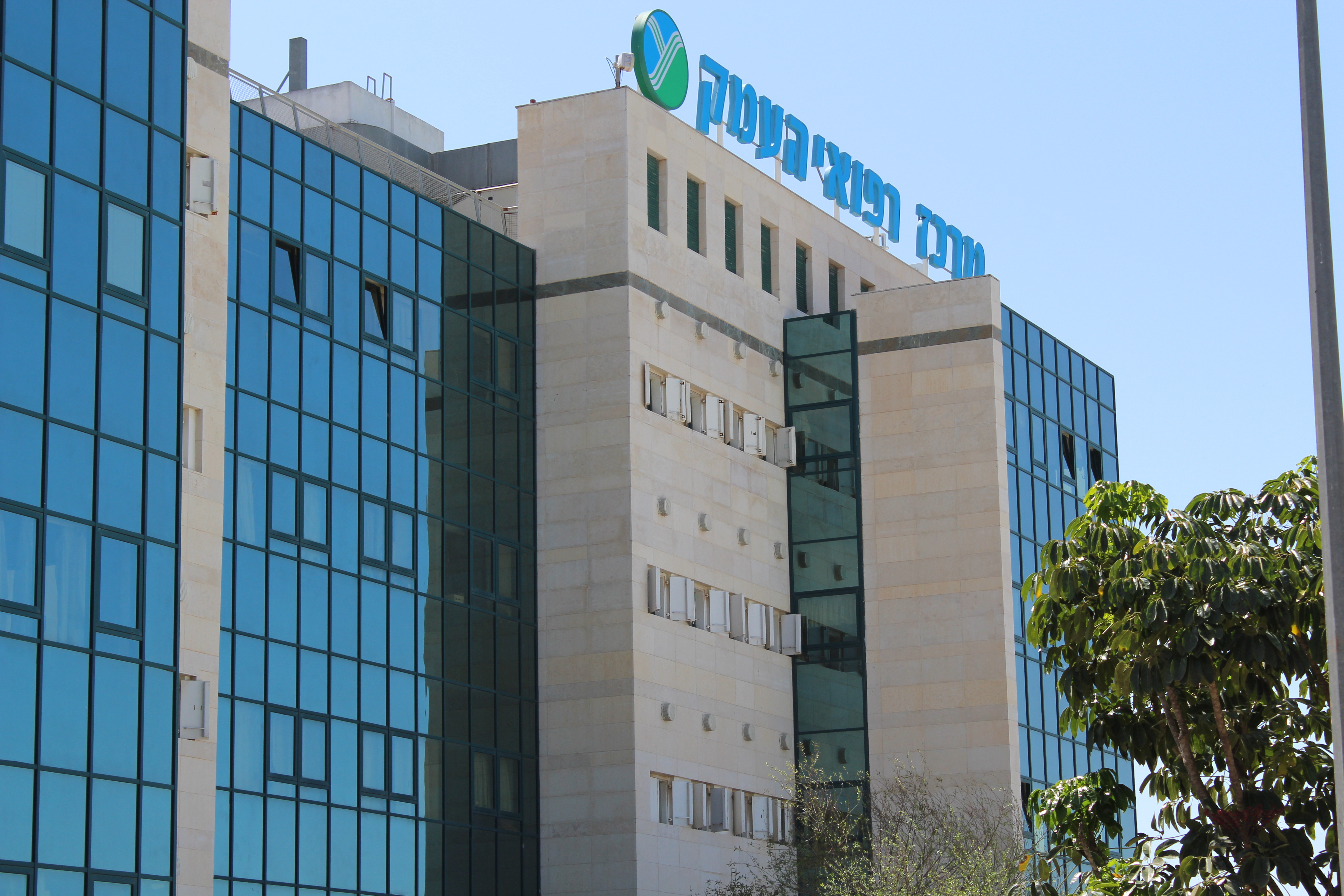 HaEmek Medical Center, Afula, Israel This image was taken as part of the Elef Millim project trip to Afula Ilit, in the town of Afula in the Jezreel Valley, which was held on Friday, 29th March 2013. To view all images uploaded as part of the Elef Millim Project